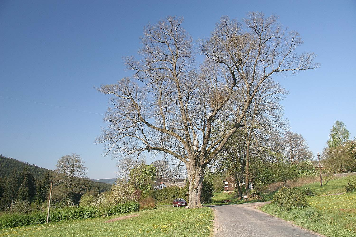 Luňáček's Lime, a protected lime (Tilia cordata) in village of Březiny, Svitavy District, Czech Republic.